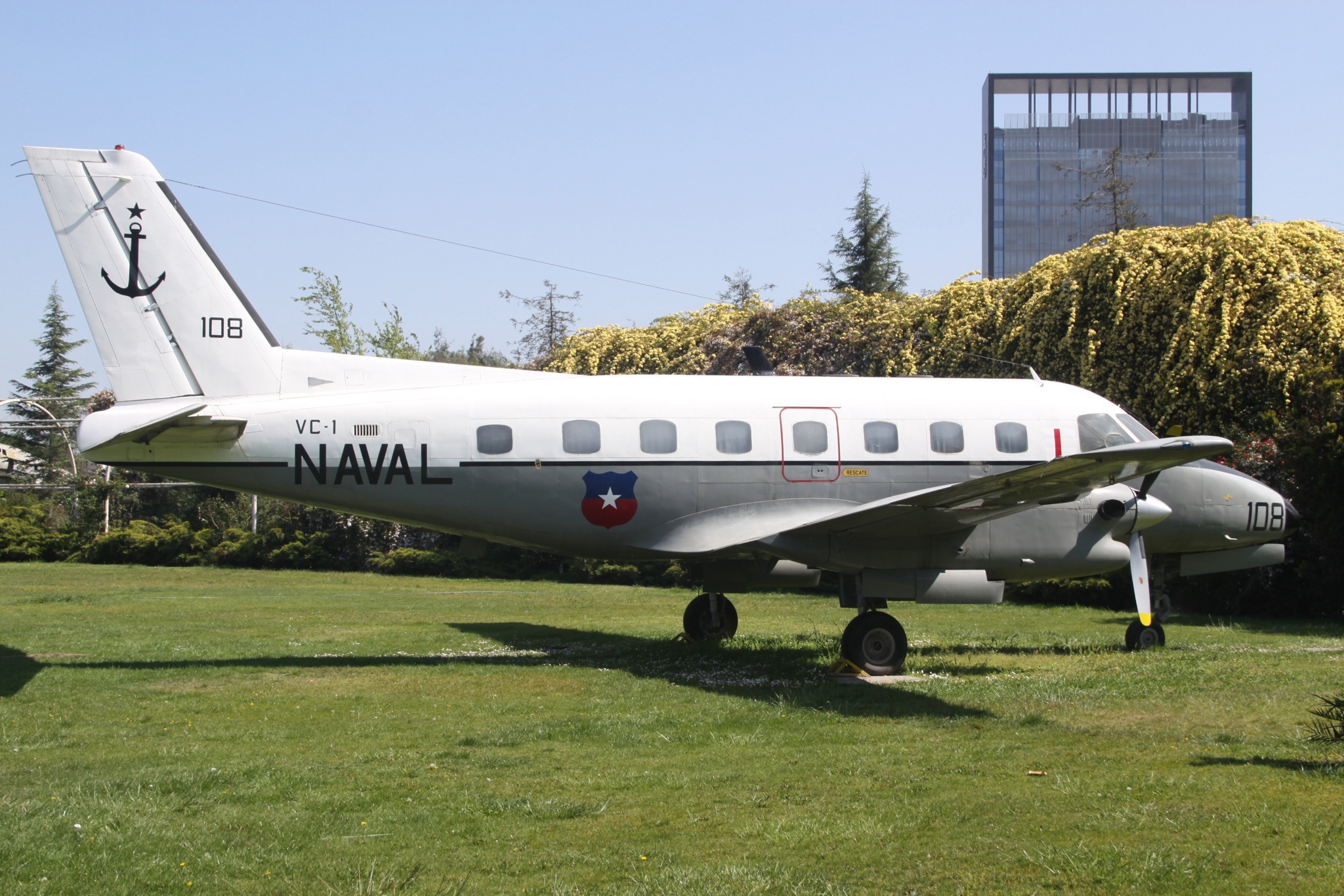 At Santiago Los Cerillos